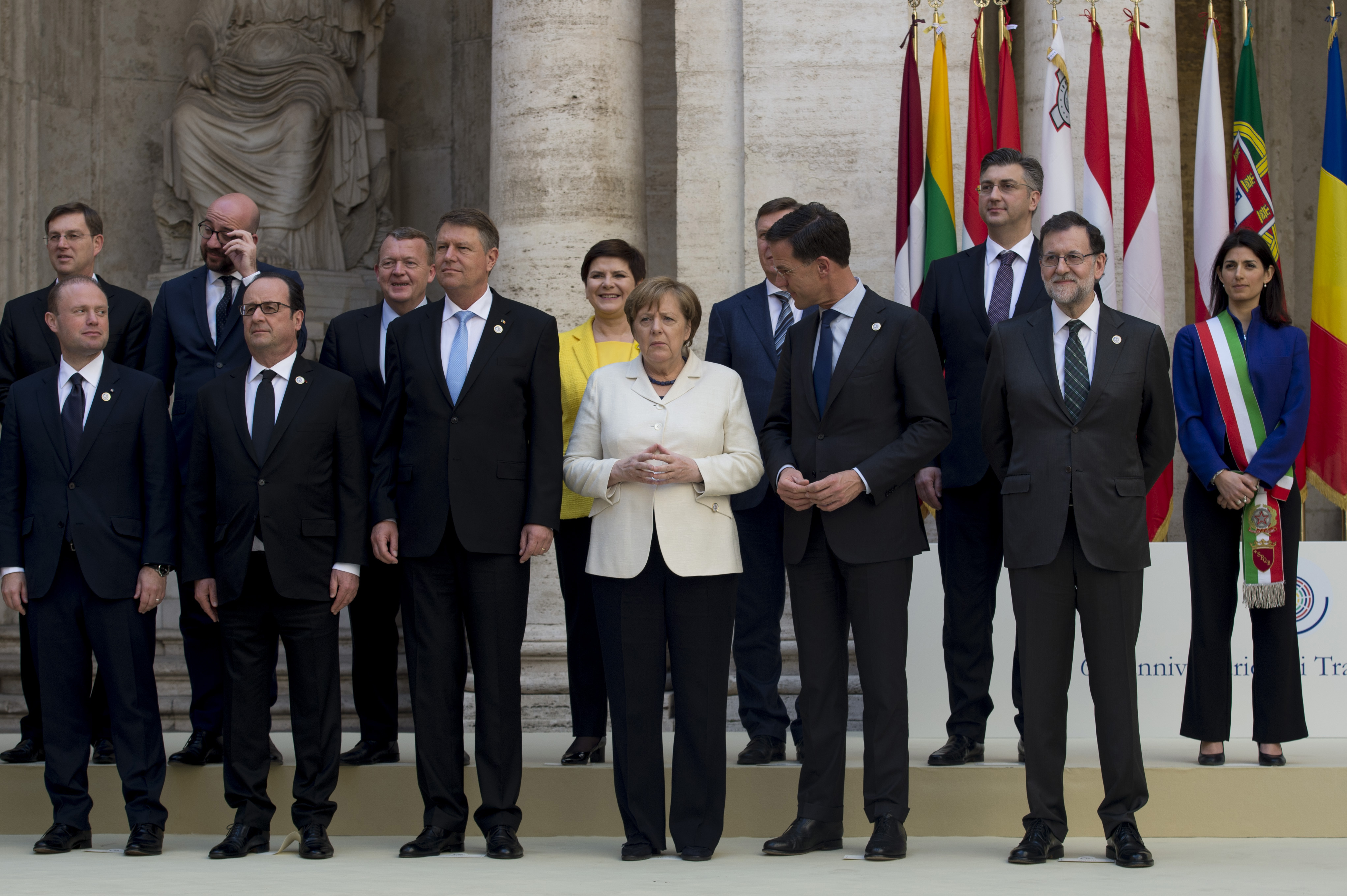 Group photograph of EU heads of government on occasion of the 60th anniversary of the Treaty of Rome in Rome